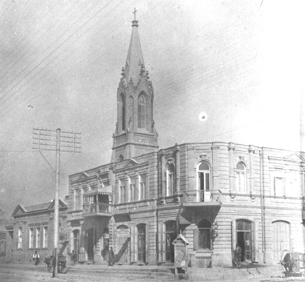 Kircha in Baku